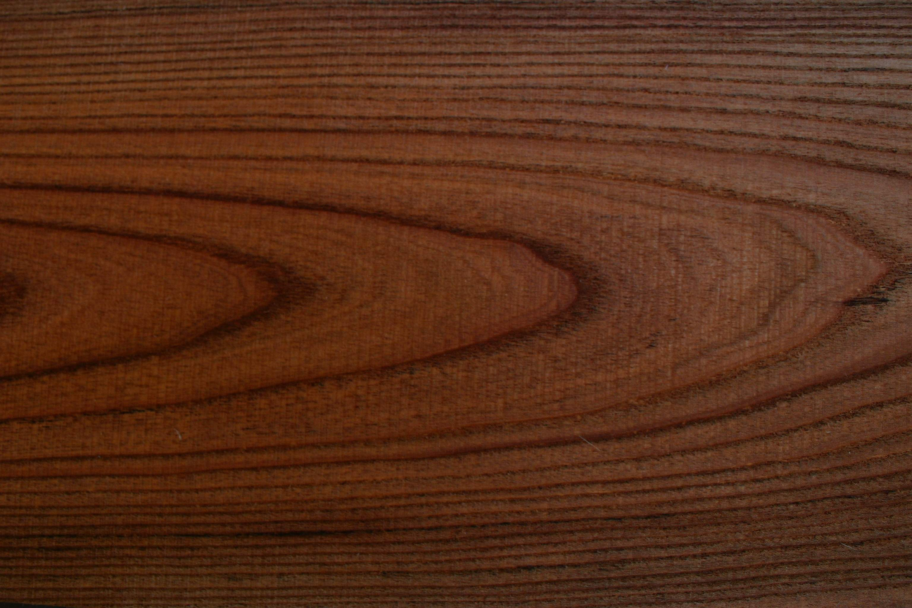 Timber of Melia azedarach L. cut from a tree cultivated in Johannesburg, South Africa